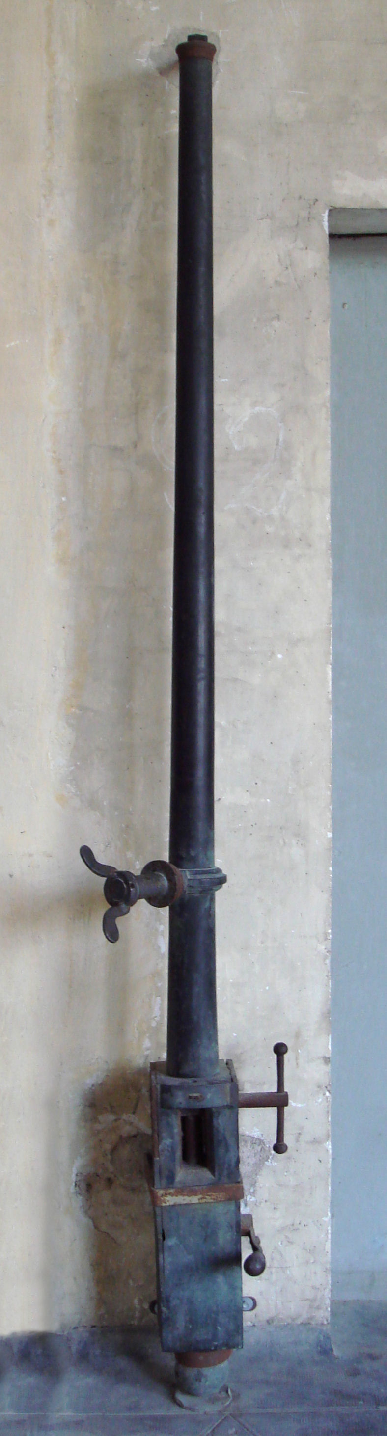 USA_30mm_1890_steel_rifled_breech_loading_swivel_gun_captured_in_Madagascar_in_1898_length_230cm